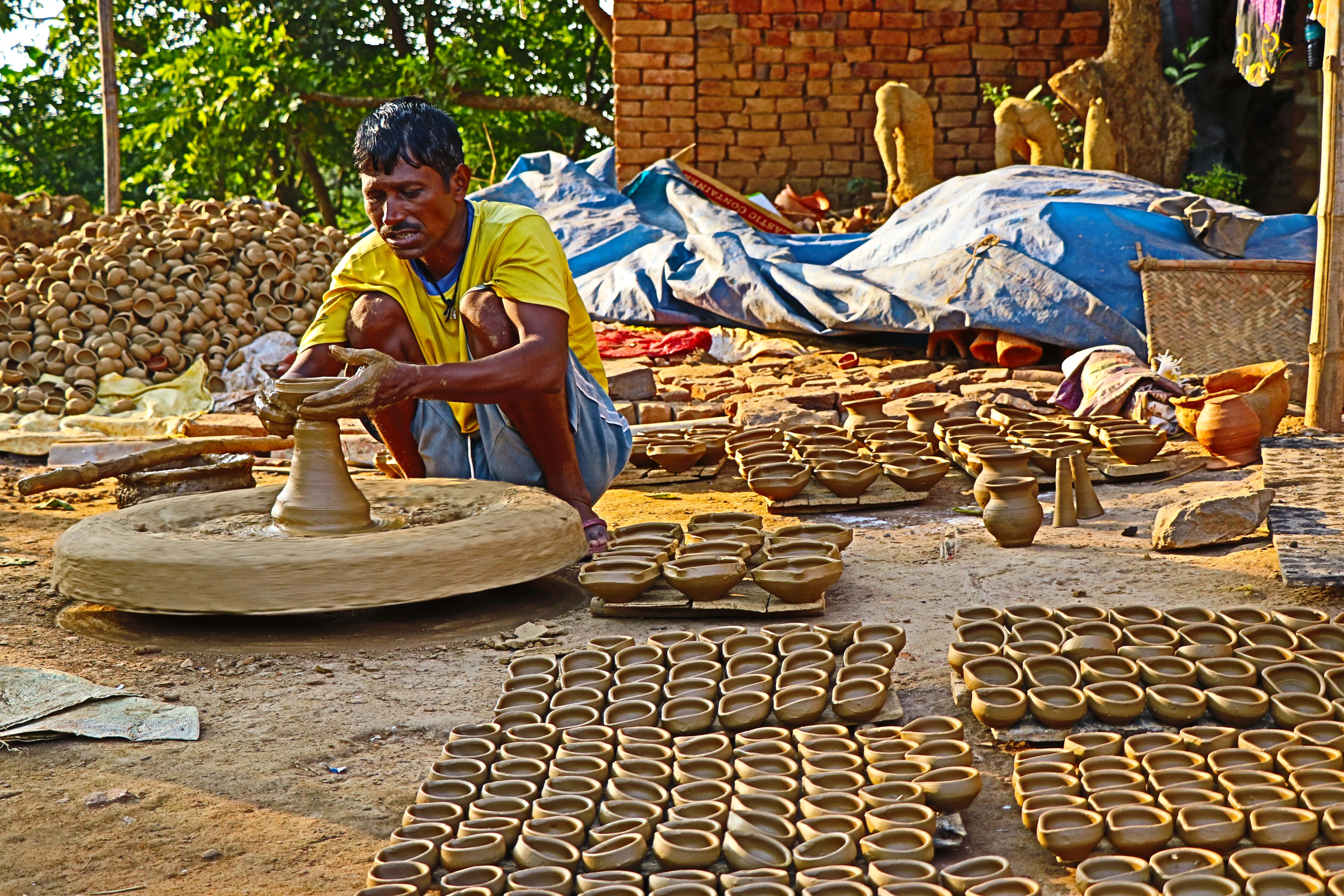 only way of earning through the year he make tea cup, and small pot from soil.place place- jharkhand, chaibasa, India